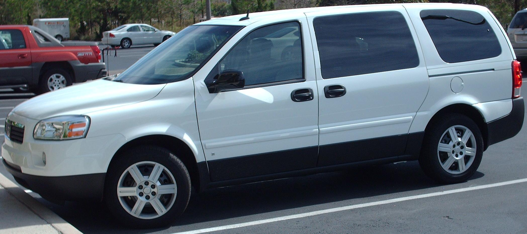 2007 Saturn Relay photographed in Orlando, Florida, USA.